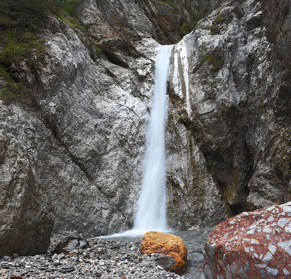 Some 15 m tall waterfall, right is a nice example of Tarvisian Breccia boulder.